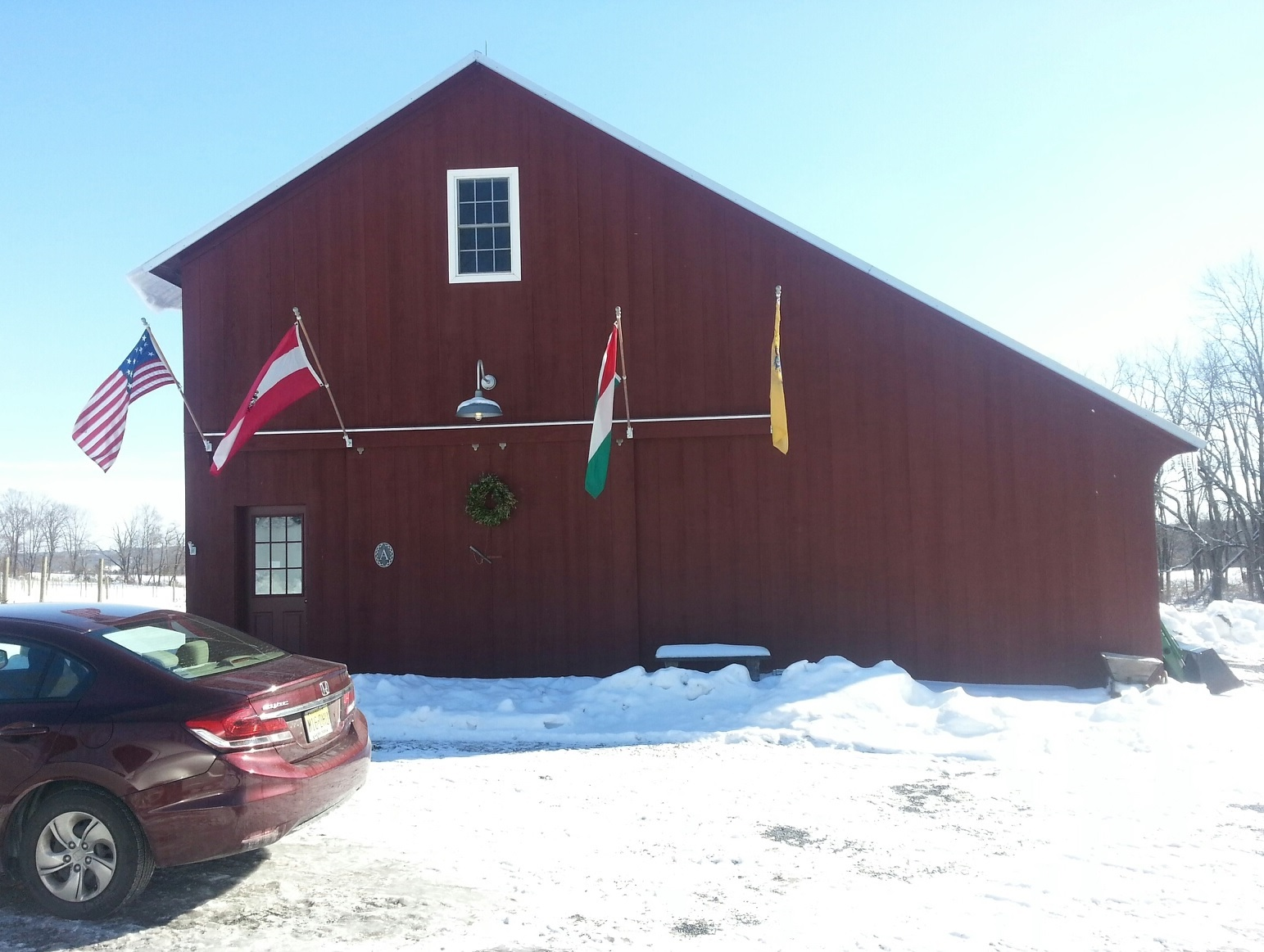 A picture of the tasting room at Mount Salem Vineyards in Pittstown, NJ. The flags of Austria, Hungary, New Jersey, and the United States are displayed on this 200-year-old structure that once served as a barn.